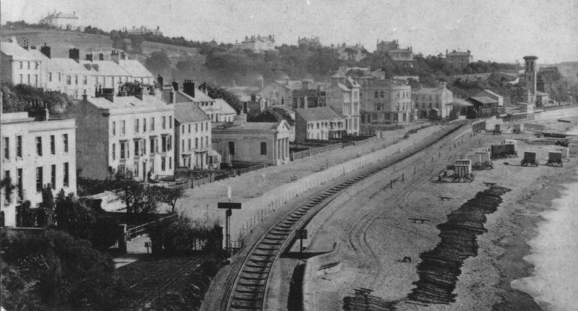 Dawlish station in Devon in the 1870's. The atmospheric pumping engine tower can be seen, together with a Brunel "disc and crossbar" signal and broad gauge "baulk road" track.